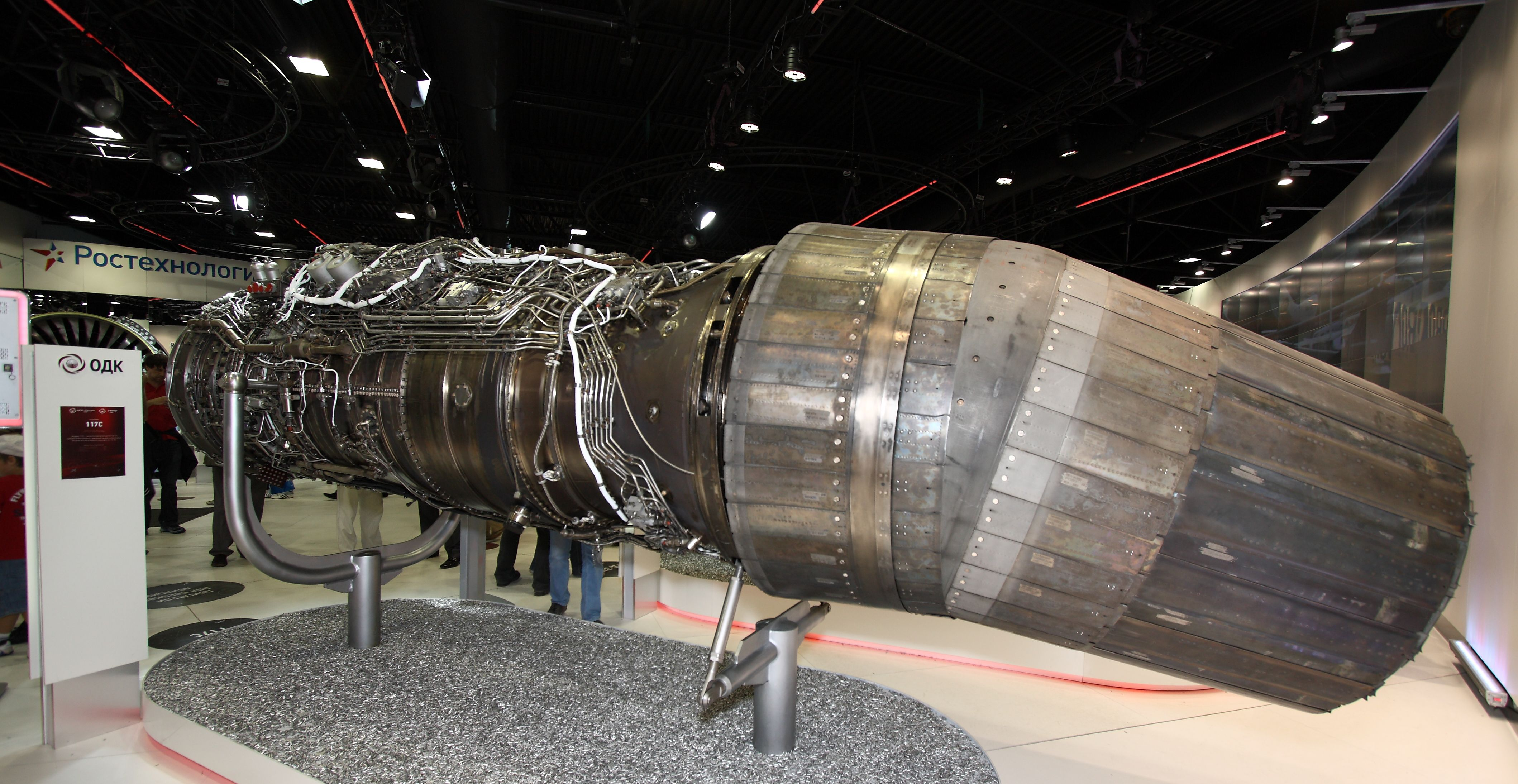 Jet engine Saturn AL-41F1 for fifth generation jet fighter Sukhoi PAK FA (The international aerospace salon MAKS-2011)